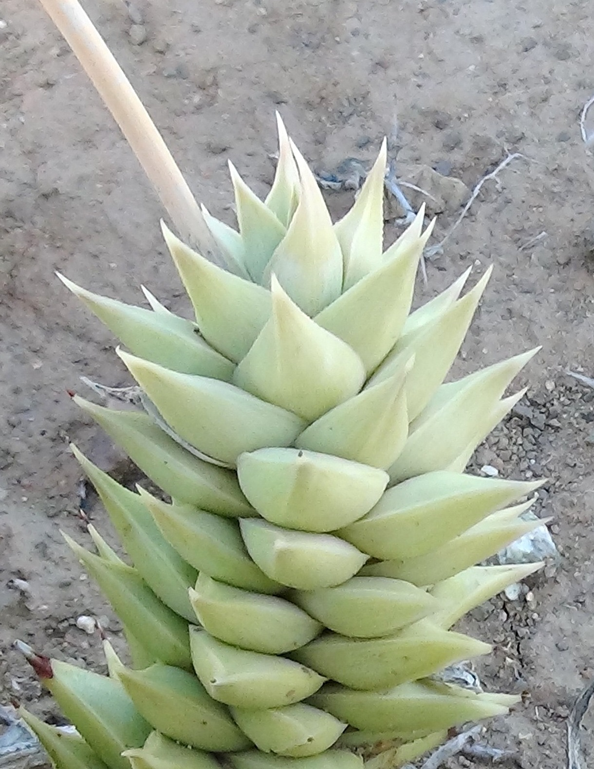 Cream coloured Astroloba herrei